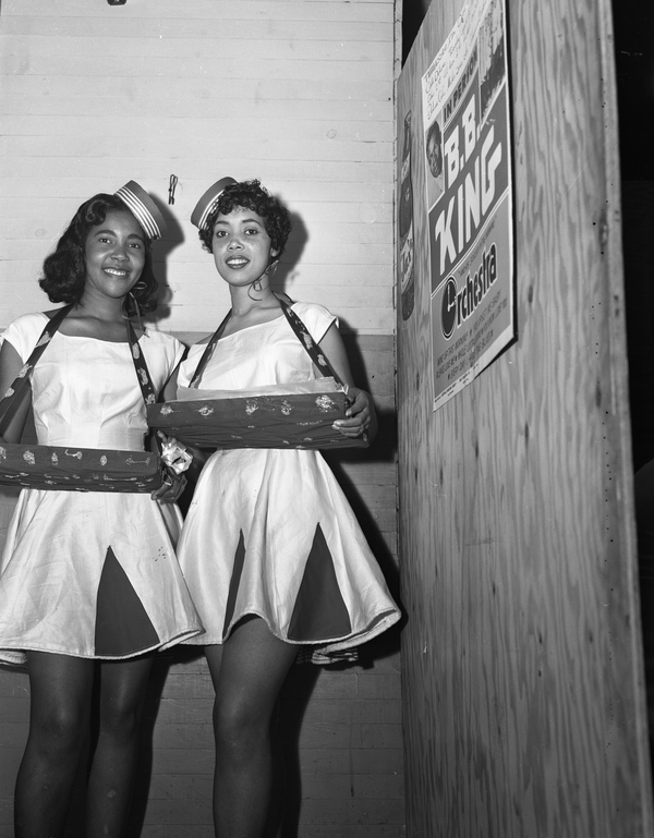 Persistent URL: Local call number: TD00109D Title: Unidentified cigarette girls in Tallahassee, Florida Date: April 11, 1956 Physical descrip: 1 photonegative - b&w - 4 x 5 in. Series Title: Tallahassee Democrat Collection Repository: State Library and Archives of Florida 500 S. Bronough St., Tallahassee, FL, 32399-0250 USA, Contact: 850.245.6700